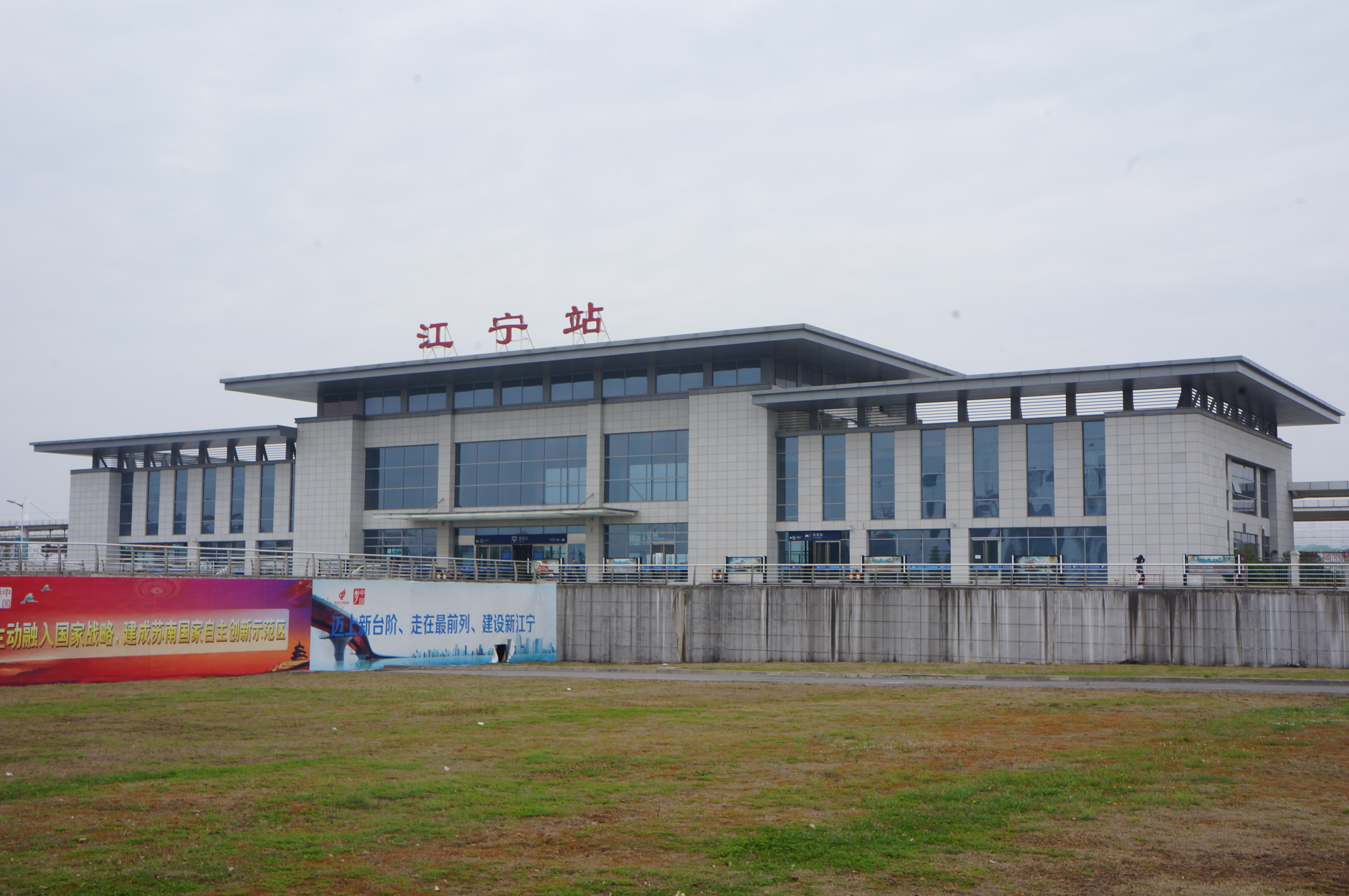 201704 Jiangning Railway Station